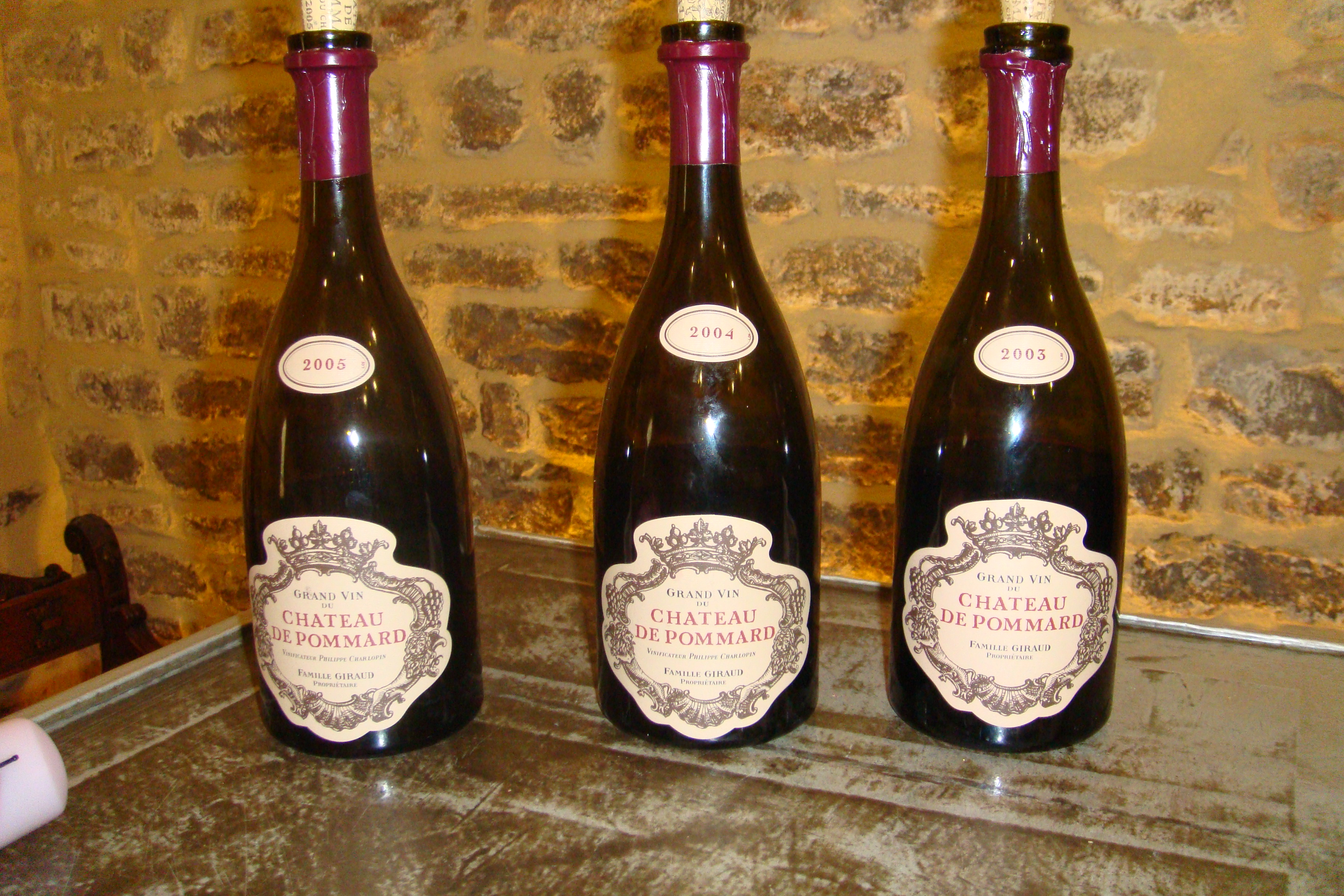 Vertical lineup of Pinot noir wines from the Burgundy region of Pommard